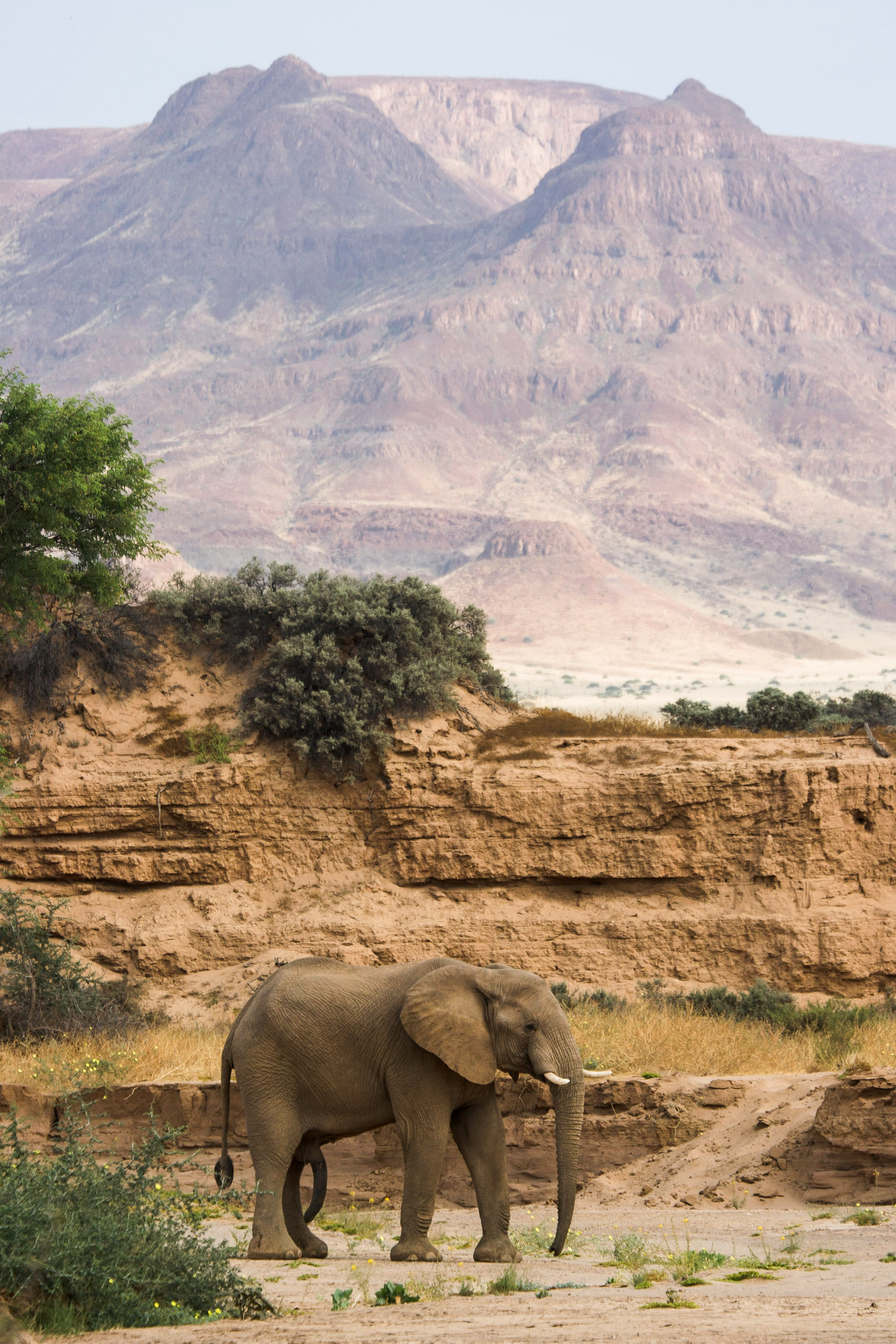 Elephant in Huab riverbed